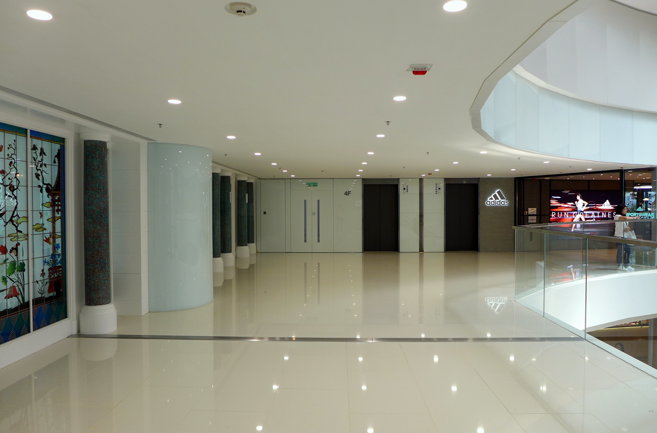 Harbour City Gateway L4